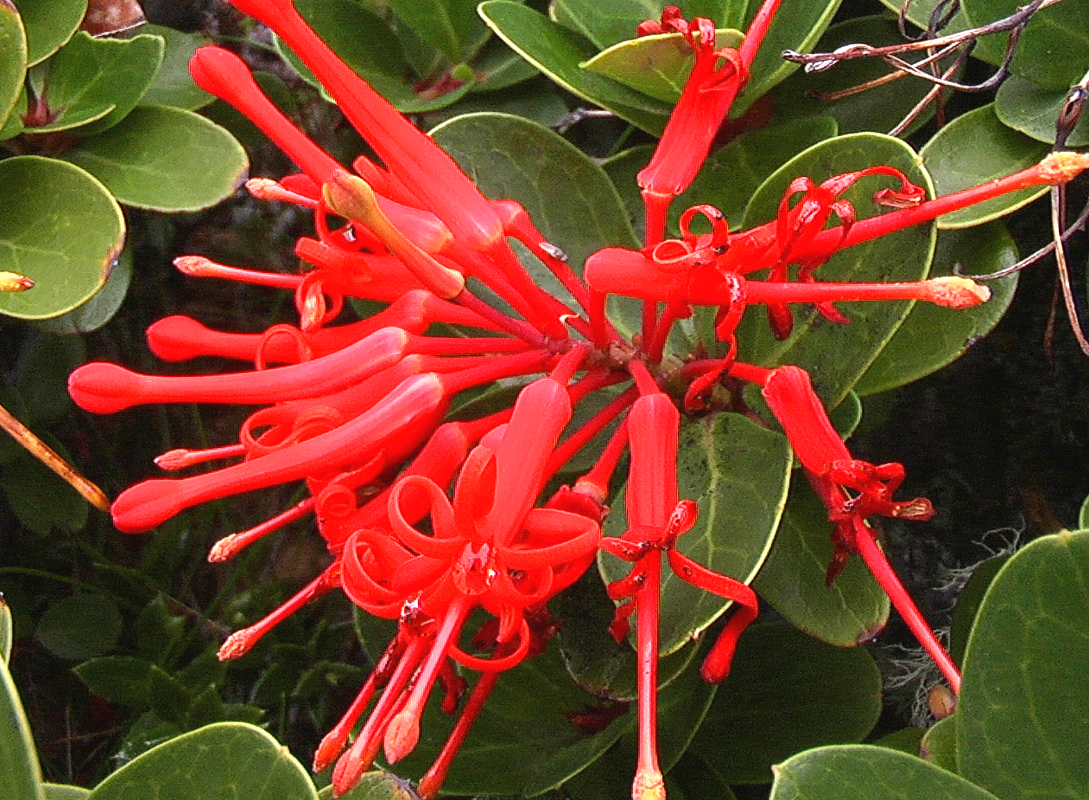 Chilean Firetree (Embothrium coccineum) Tierra del Fuego, near Ushuaia, Argentina. Photographed on 5 January 2004